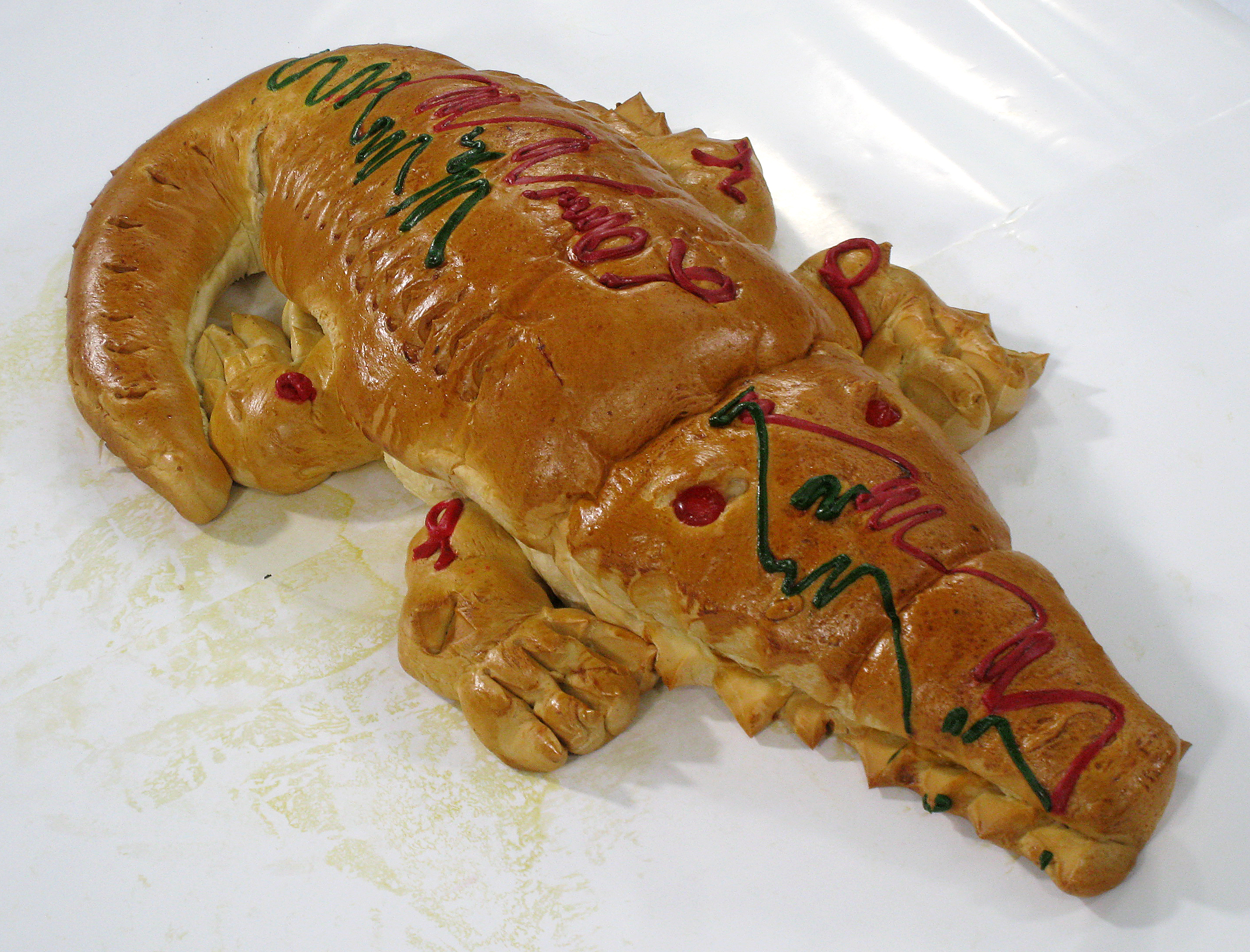 Roti Buaya or "Crocodile Bread", is Betawi (native Jakartans) delicacy of crocodile shaped bread. It is often served in festive occassions such as weddings and celebrative moments. Jakarta, Indonesia.